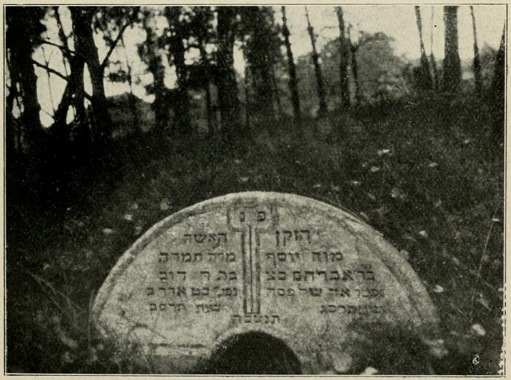 Jewish cemetery in Polonka